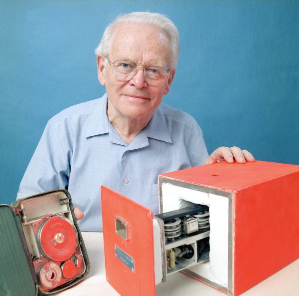 Dr David Warren with the first prototype FDR.